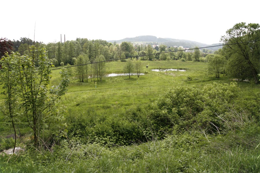 Votocnice, Meadow on side of Sazava river at the begining of the "Devils furrow" was from time out of mind named Votocnice (in translation - turning point). By the Christian myth St. Prokop (Procopios) turned plough drawn by the devil here. In real here probably was place for carriage turning on the end of way named "Devils furrow" in time of bronze age.